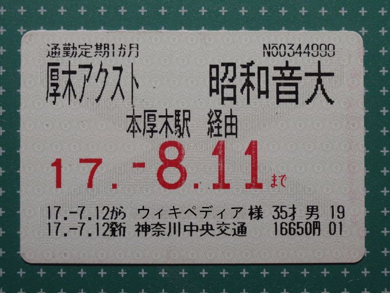 Monthly ticket by Kanachu Bus